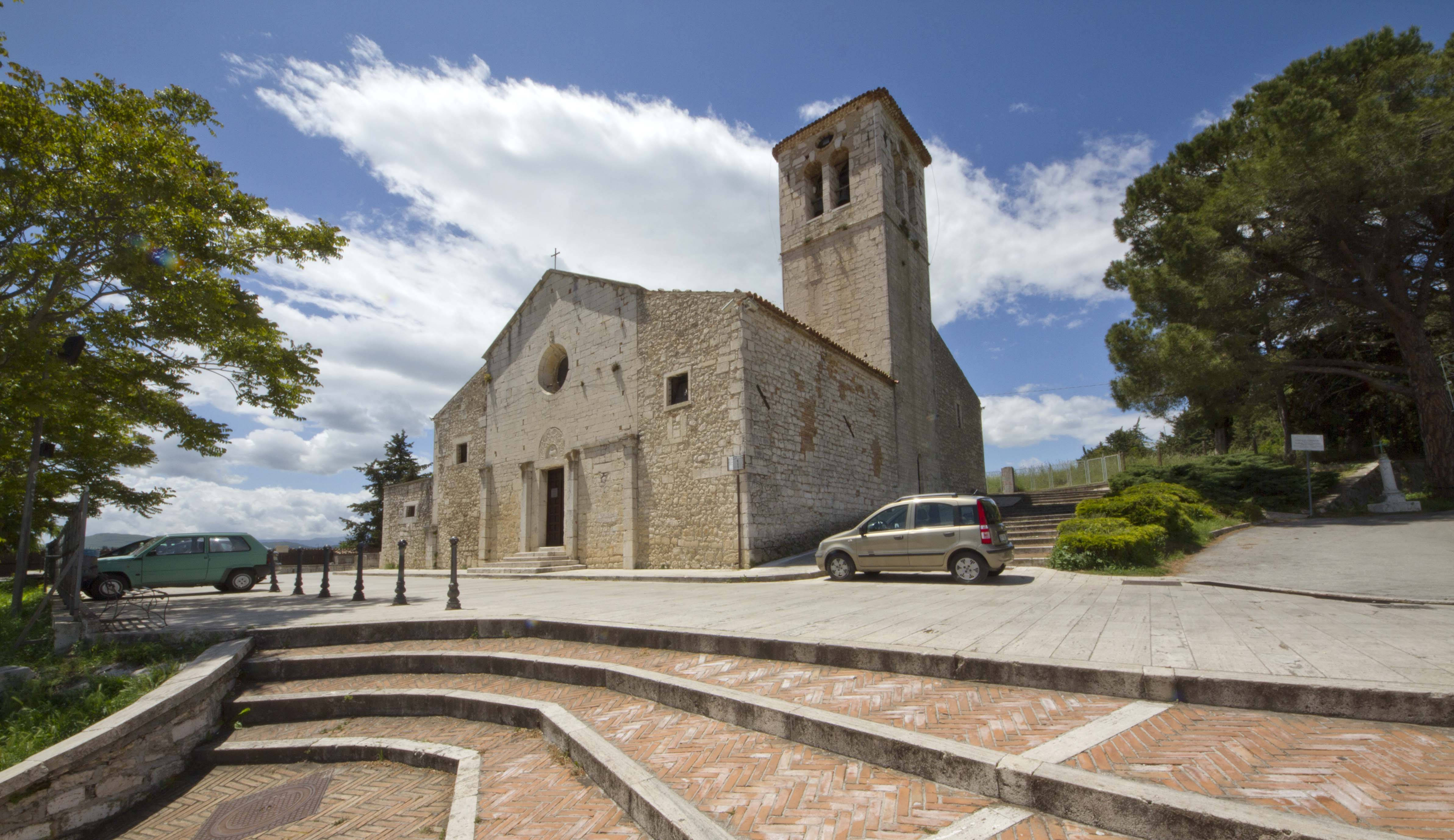 Old Town, 86100 Campobasso, Italy